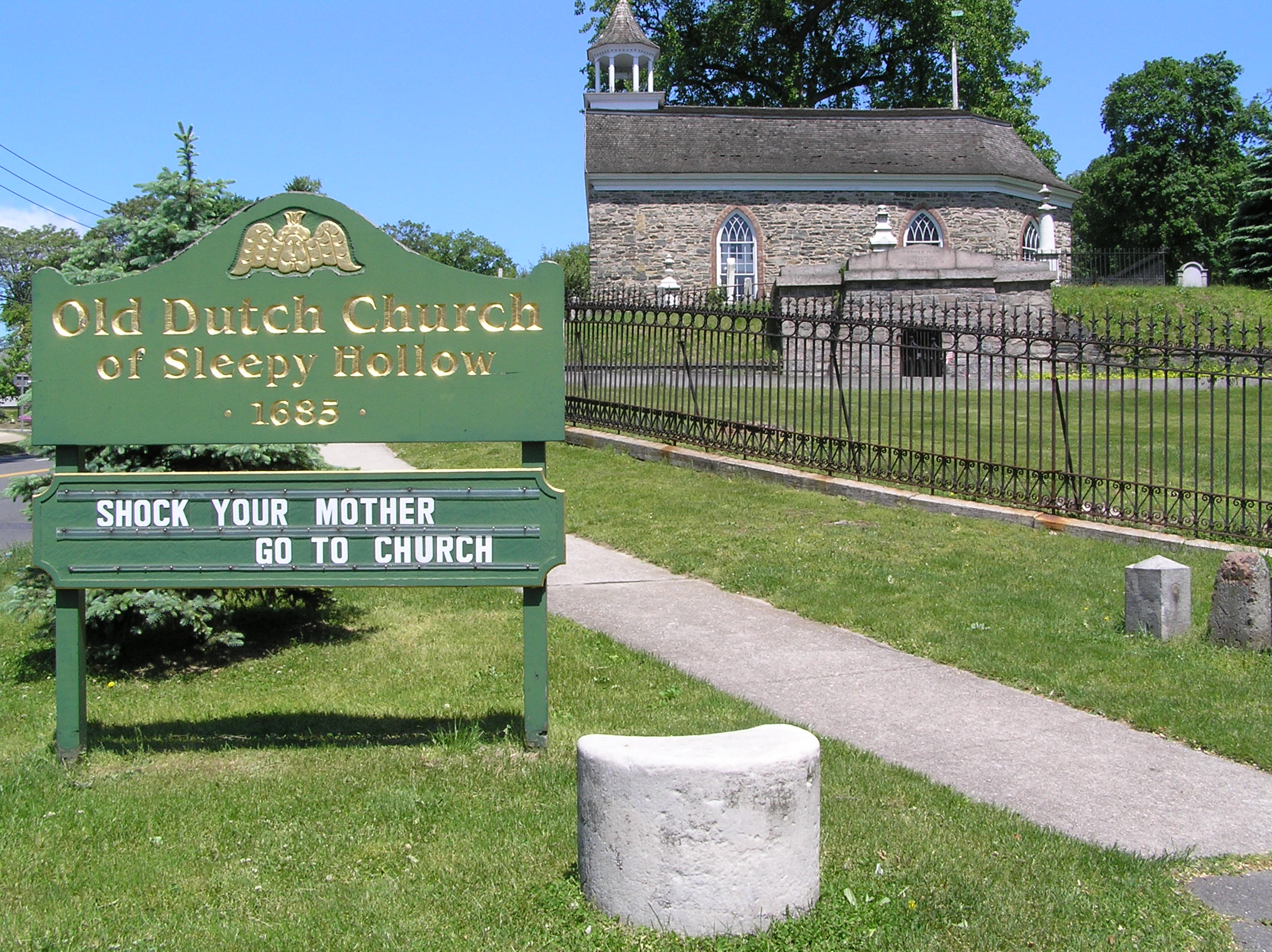 a photograph of the Old Dutch Church of Sleepy Hollow